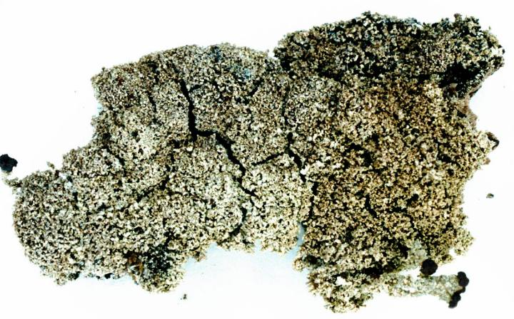 Cladonia parasitica (Hoffm.) Hoffm., 1796 Photograph of a herbarium specimen. C. parasitica was growing on the bark of a small tree at the Endless Mountain Retreat, S on County Road 601, approximately 2.4 miles from US 250 in Highland County, Virginia, USA; collected and identified by E.C. Uebel (No. U-363, 8 Jun 2002).